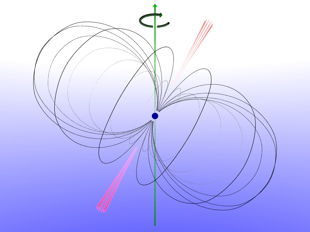 Schematic view of a pulsar. The sphere in the middle represents the neutron star, the curves indicate the magnetic field lines and the protruding cones represent the emission zones.